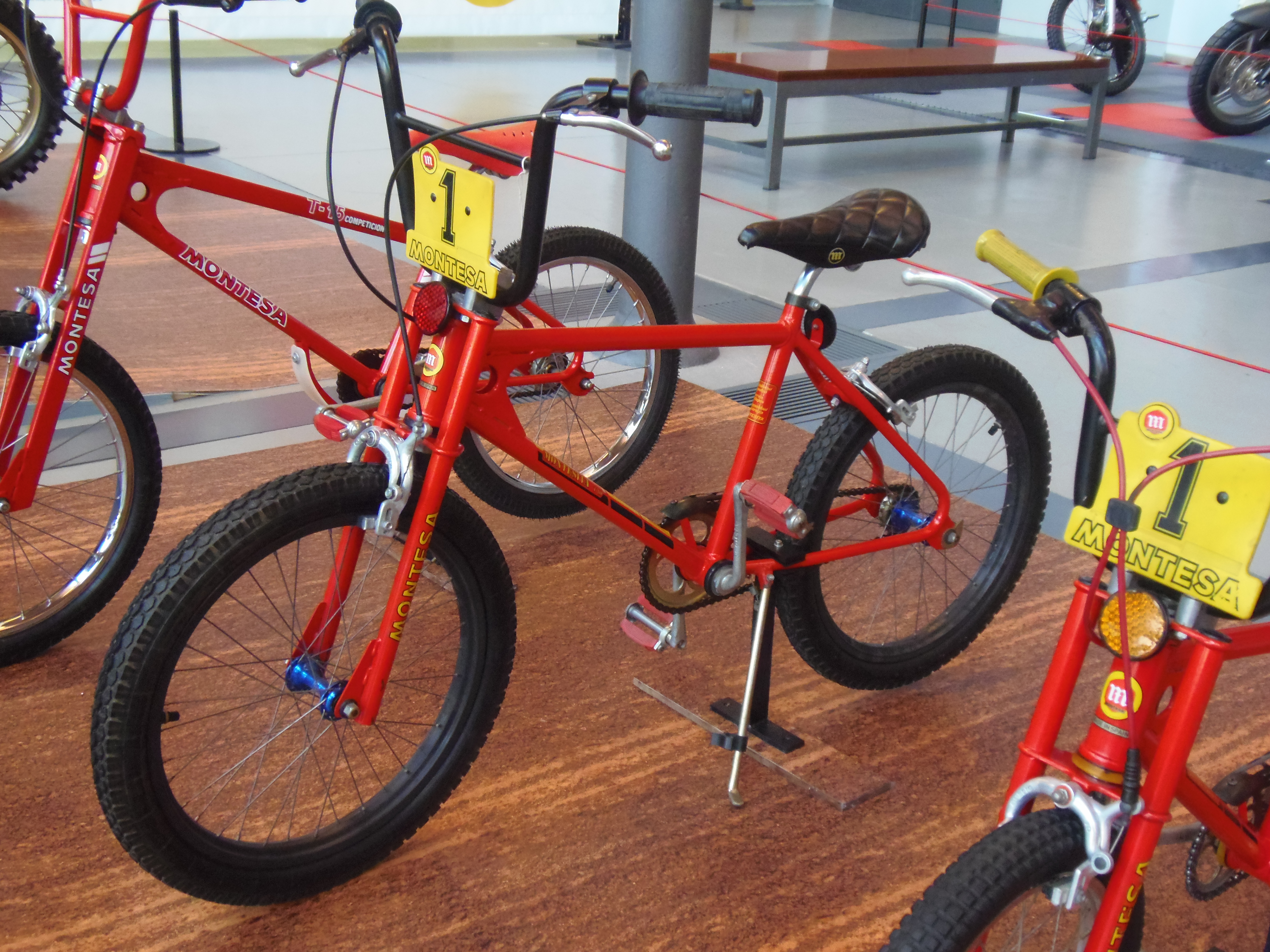 In the middle: Montesita T-10, 1979